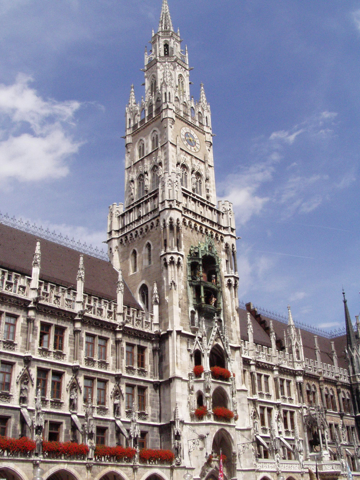 New Town Hall in Munich, Bavaria